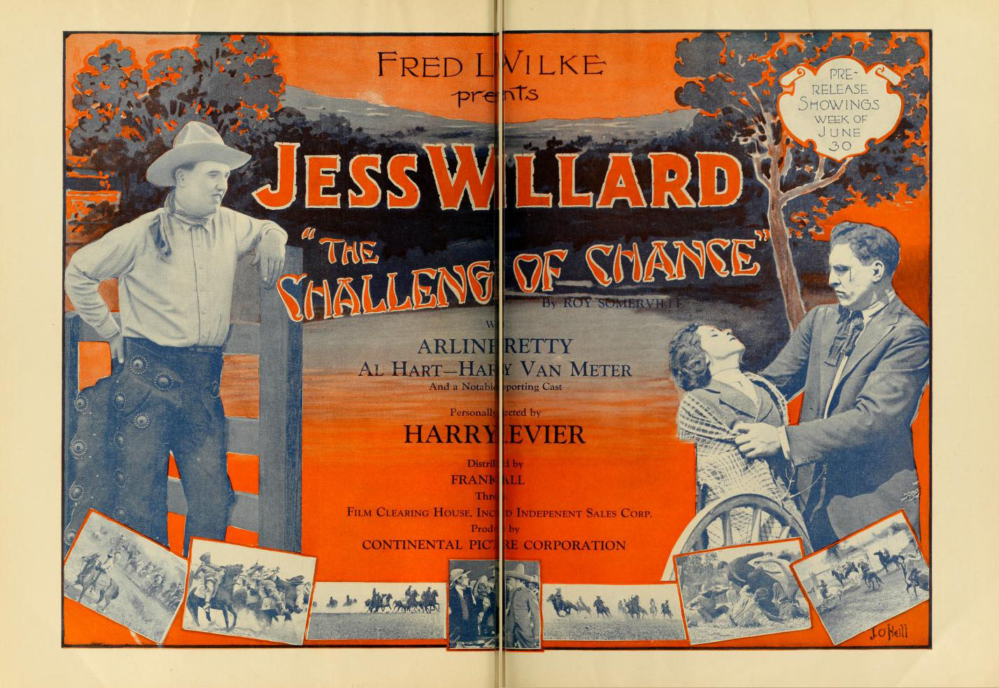 Advertisement, Moving Picture World, June 1919 for the American western film The Challenge of Chance (1919).